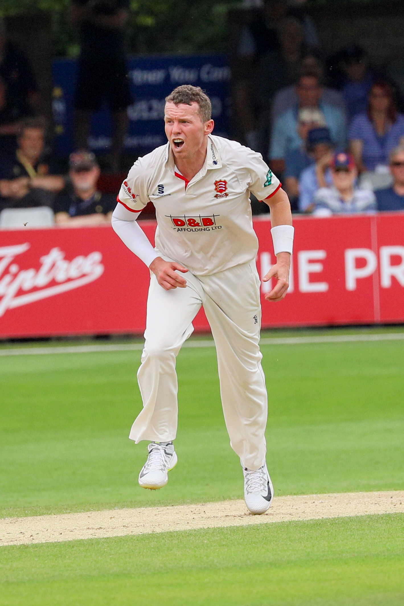 Peter Siddle bowling at County Cricket Ground, Chelmsford vs Somerset CCC in 2019